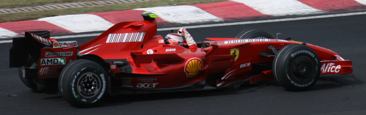 Formula One 2007 Rd.17 Brazilian GP: Kimi Räikkönen (Ferrari) won the race and the championship